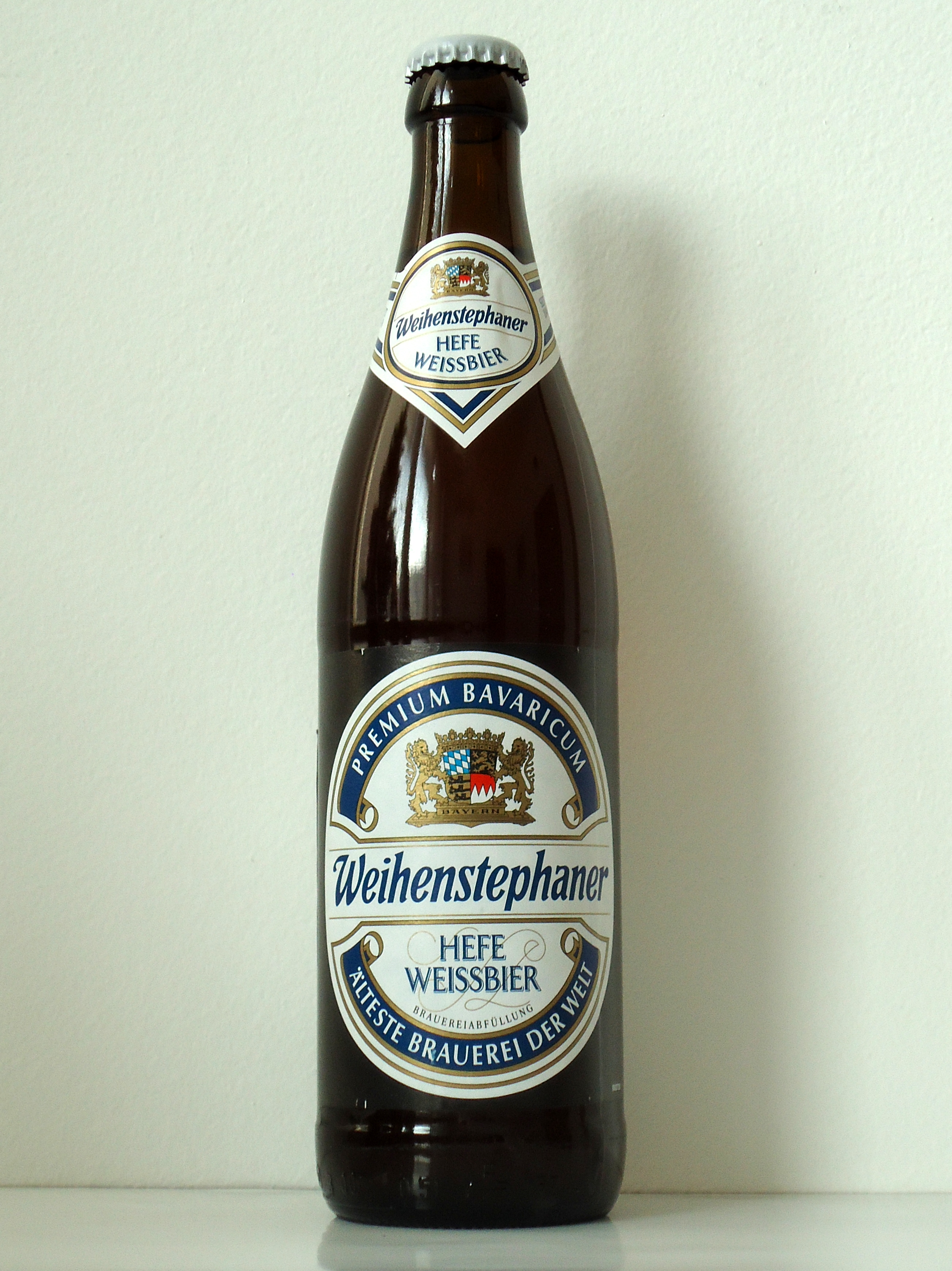 Weihenstephaner Hefe Weissbier beer